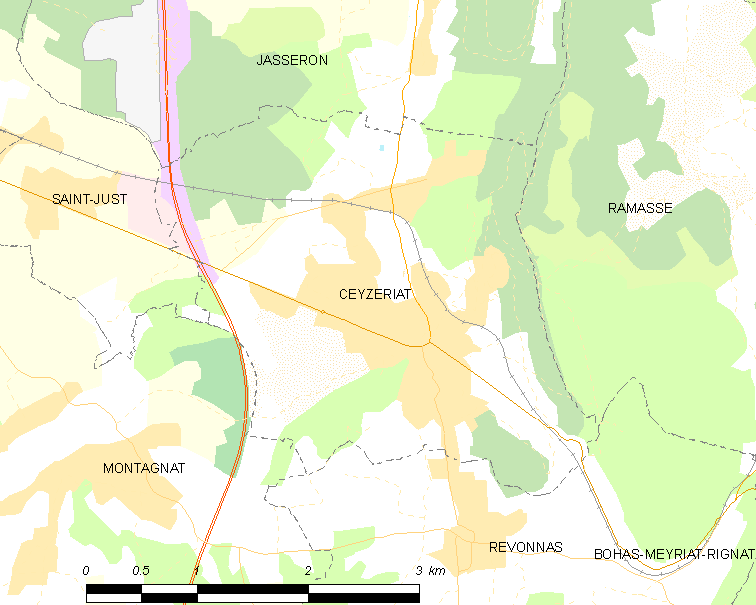 Map of French commune: Ceyzériat Map commune FR insee code 01072.png